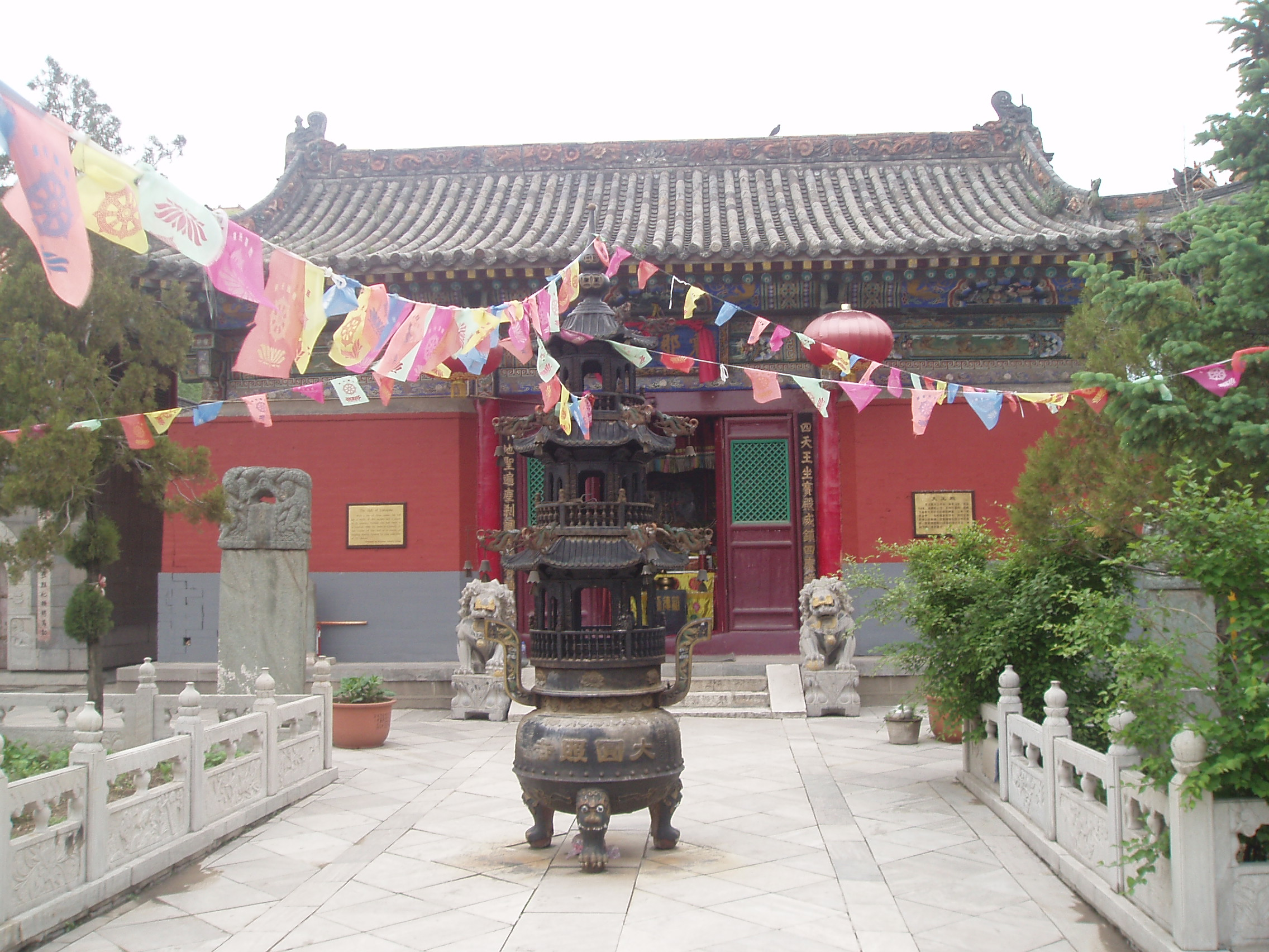 The Hall of Lokapala at the Yuanzhao Temple in Wutaishan, China